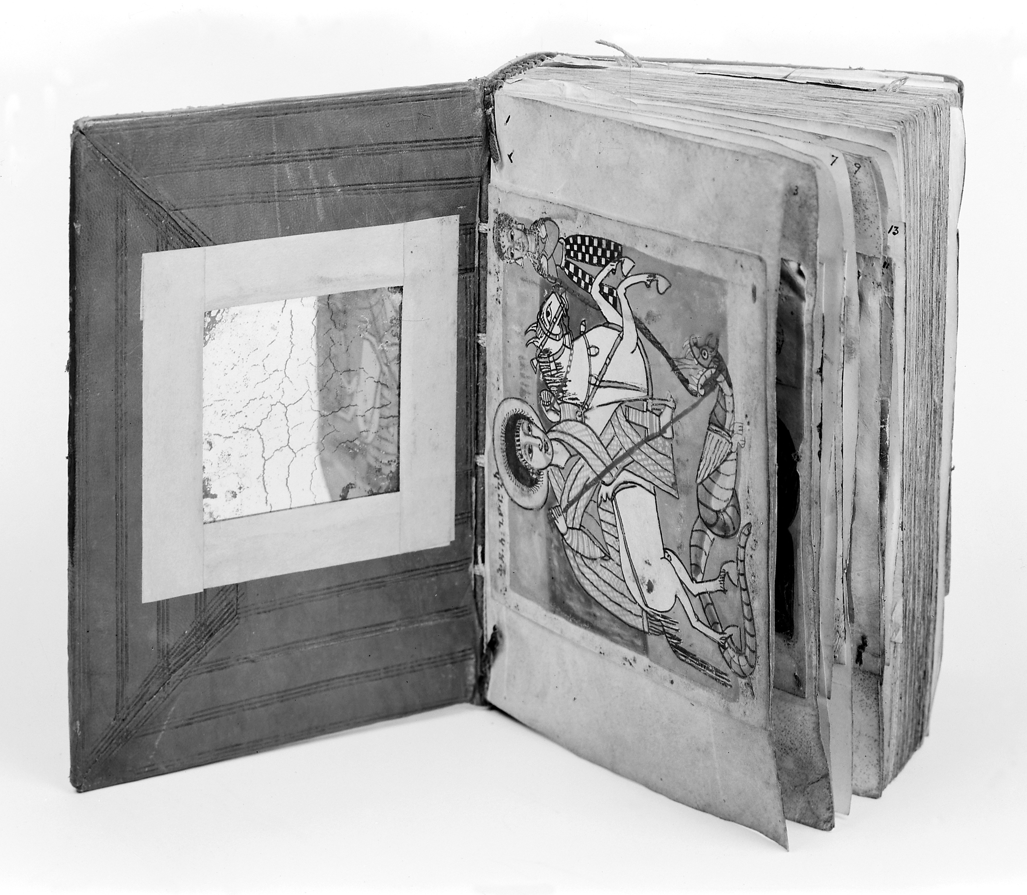 King Theodores Bible. First page showing mirror inside front cover. Page illustrated, Saint george.An ethiopic manuscript written on vellum, tooled leather binding, 8 volumes. Library number 62892. Archives & Manuscripts Keywords: holy book; Christianity